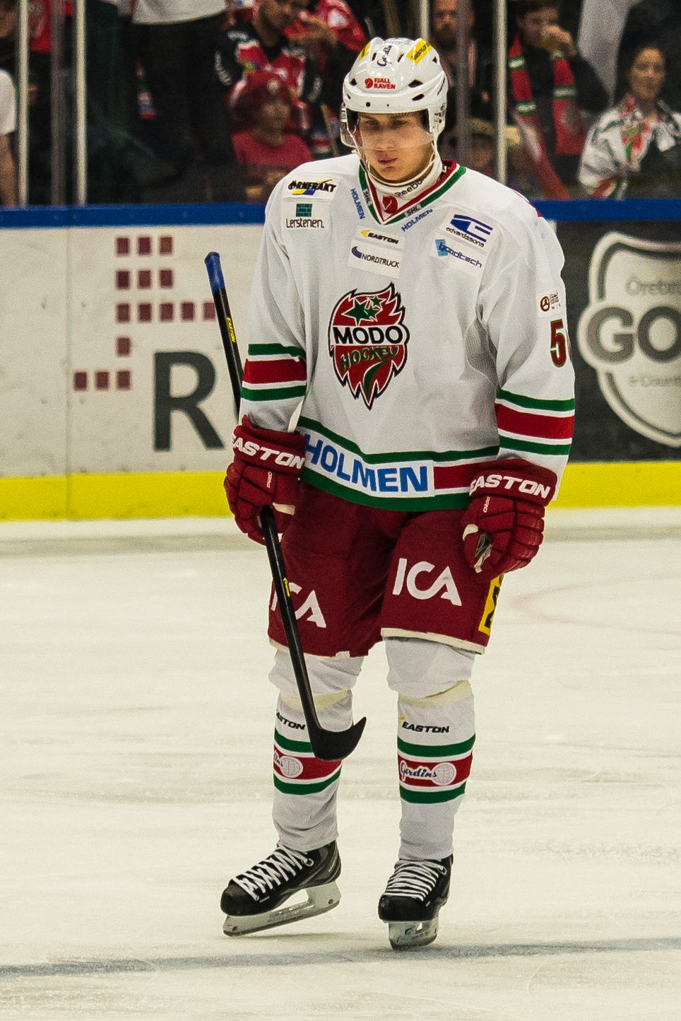 Viktor Lööv playing for MODO Hockey in SHL (Swedish Hockey League – Sweden's highest league) vs Örebro HK in Behrn Arena 2013-10-05.